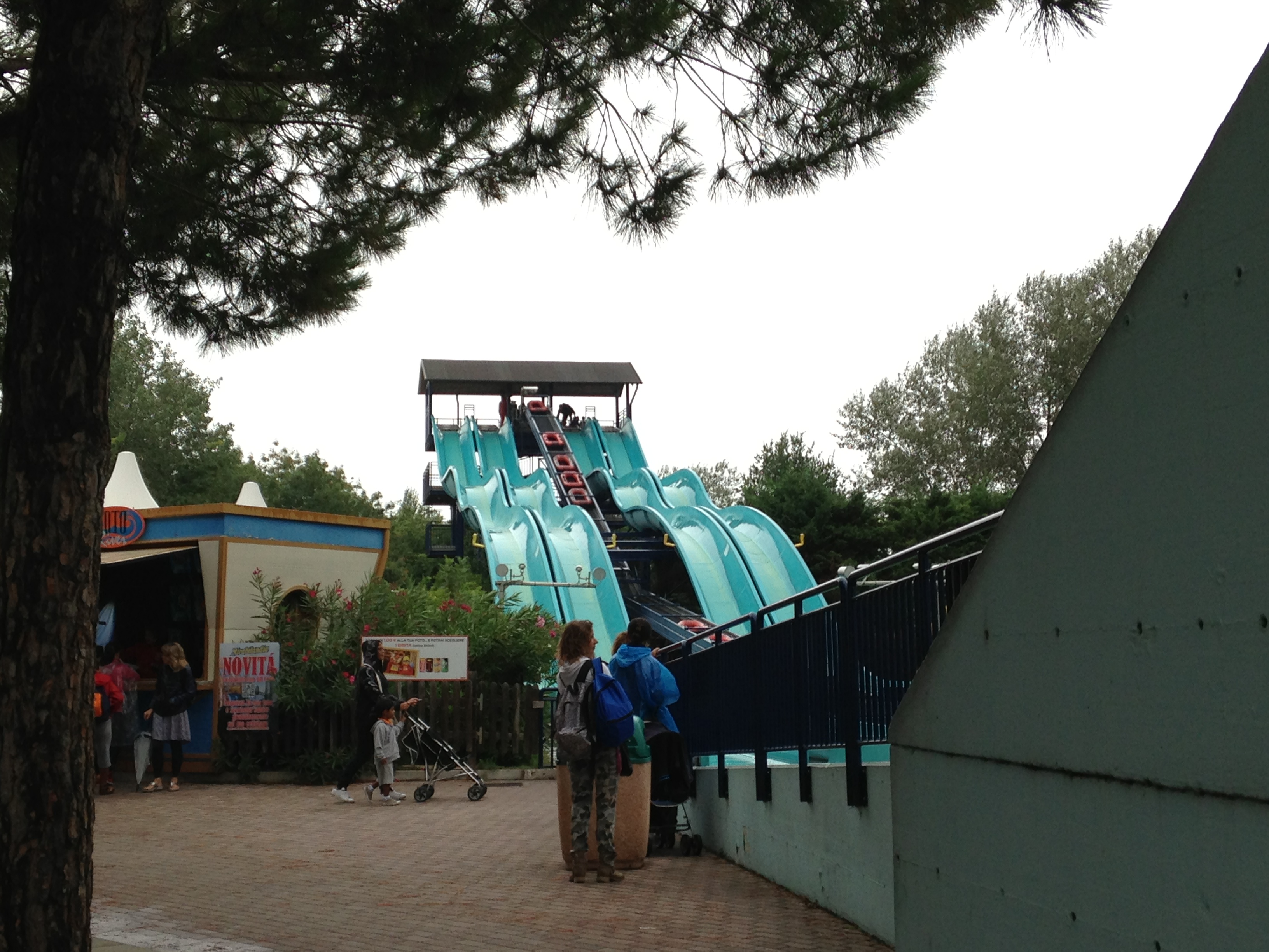 Blu River in Mirabilandia